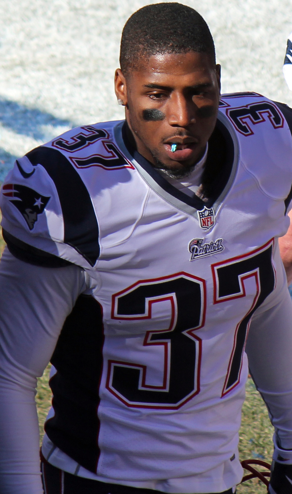 Alfonzo Dennard, a player on the National Football League.